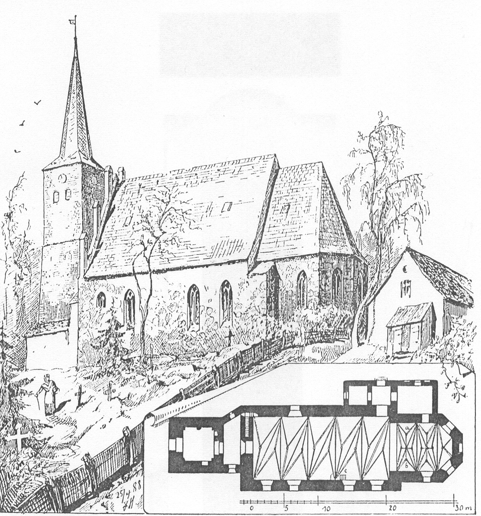 The Juditten Church in Königsberg at the late 19th century